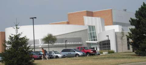 Wright State University School of Medicine building on the main campus, Fairborn, Ohio, U.S.A.